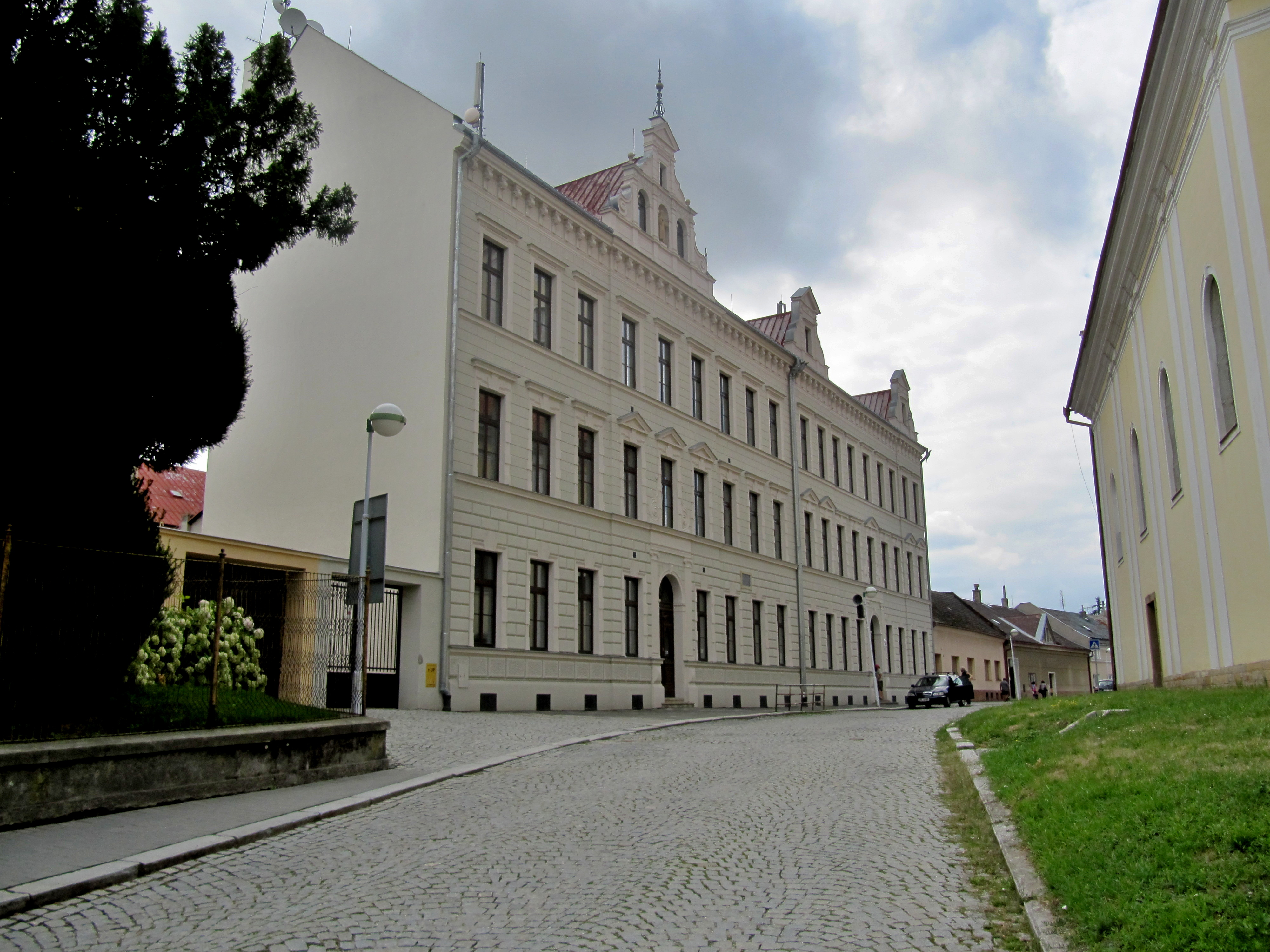 Tovačov, Přerov District, Czech Republic.